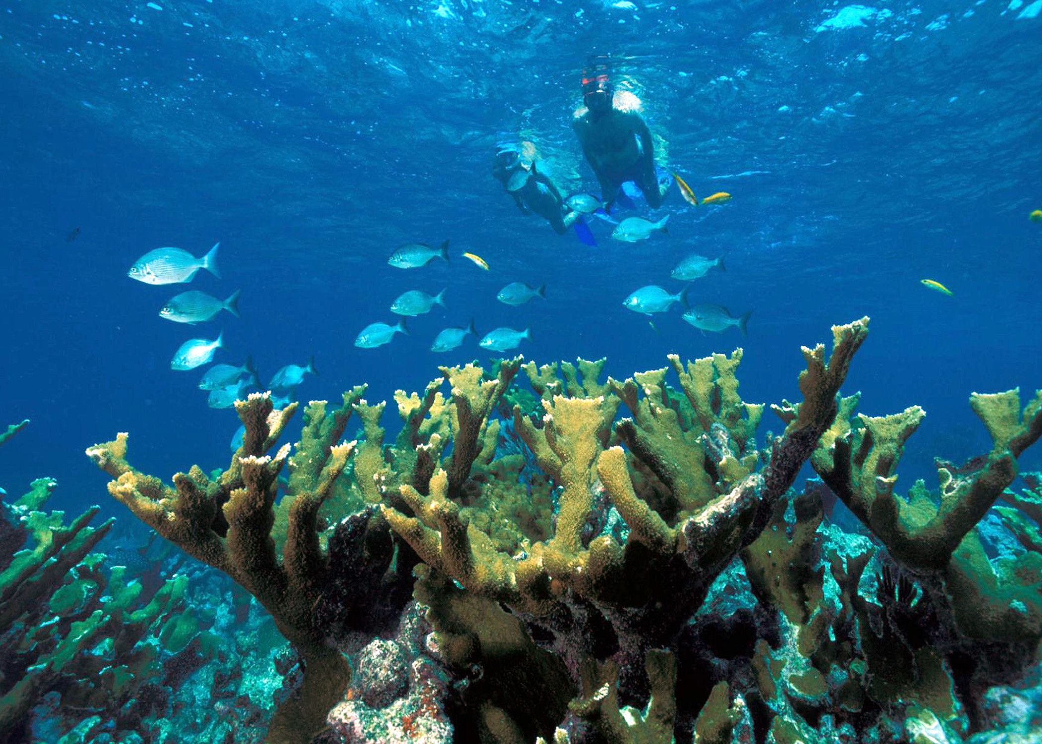 Biscayne National Park